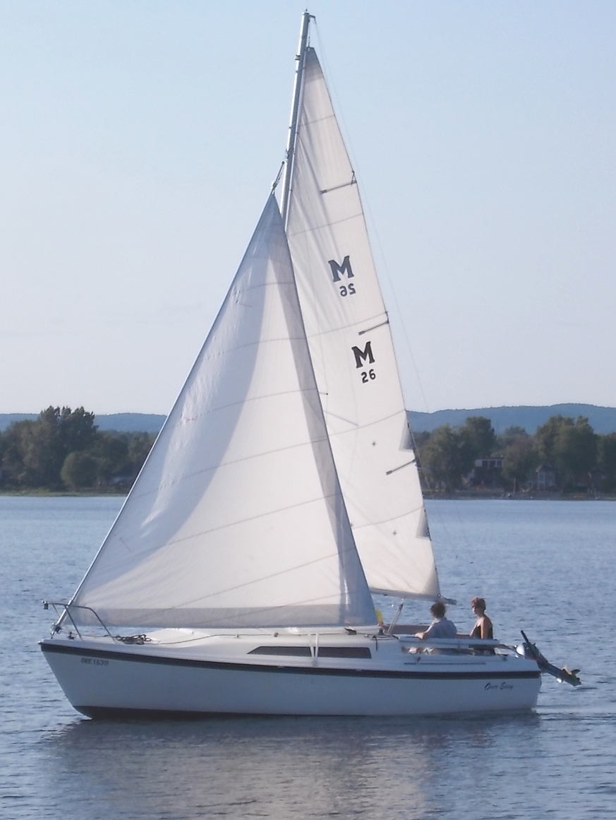 MacGregor 26 sailboat Easy Over on Lac Deschênes, part of the Ottawa River, Ottawa, Ontario, Canada